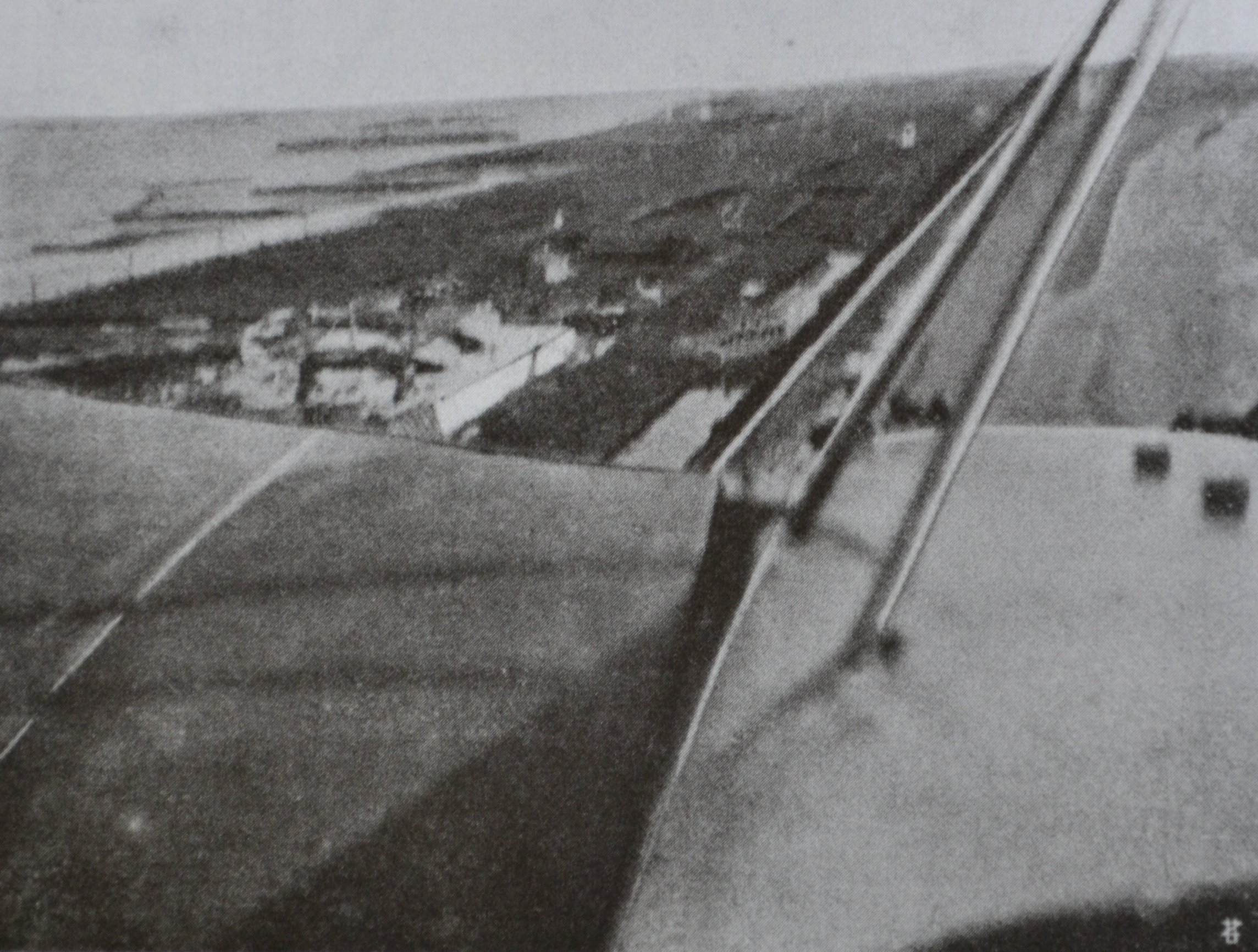 An Italian pioneer monoplane Caproni Ca.12 performs a demonstration flight over the beach of Venice (Lido di Venezia) in April 1912. View from on-board.